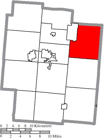 Map of the municipal and township boundaries of Jackson County, Ohio, United States, as of the 2000 census, with the location of Milton Township highlighted. Township borders are shown only in unincorporated areas in order to differentiate incorporated and unincorporated areas more clearly.